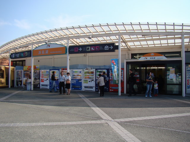 Tomei expressway Hamanako service area east side Shizuoka Japan